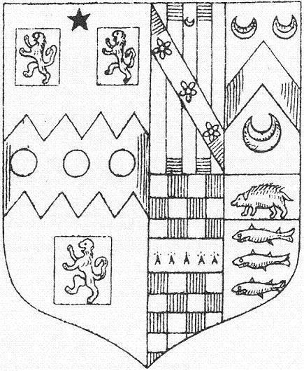 Monumental brass of Marie Stradling (d. 1613), a daughter of Edmond Stradling of St George's, Somerset (a member of the Stradling family of St Donat's Castle, Glamorgan) and wife of Sir Samuel I Rolle (c.1588-1647) of Heanton Satchville, Petrockstowe, Devon, Member of Parliament for Callington, Cornwall in 1640 and for Devon 1641-1647. Church of St Stephen-by-Saltash, Cornwall, affixed to wall at east end of north aisle, formerly on floor by altar. Inscription: "Here lyeth the bodie of Marie one of ye daughters & heyres of Edmond Stradlinge of St Georges in Somersett Esq. who maried Samuell ye eldest sonne of Robert Rolle of Heaunton in Devon Esq. She dyed yr 23th of Janua. 1613". Armorials: Or, on a fesse dancetté between three billets azure each charged with a lion rampant of the first three bezants a mullet for difference (Rolle) impaling quarterly 1: Paly of six (shown here incorrectly as five) argent and azure on a bend gules three cinquefoils or (Stradling); 2: Azure, a chevron between three crescents or (Berkerolles of Coity Castle, Glamorgan; 3: Chequy...and...a fess ermine (Turberville of Coity Castle); 4: ...three fishes niant in pale...on a chief a hedgehog (?) (Dunkin, p.90)